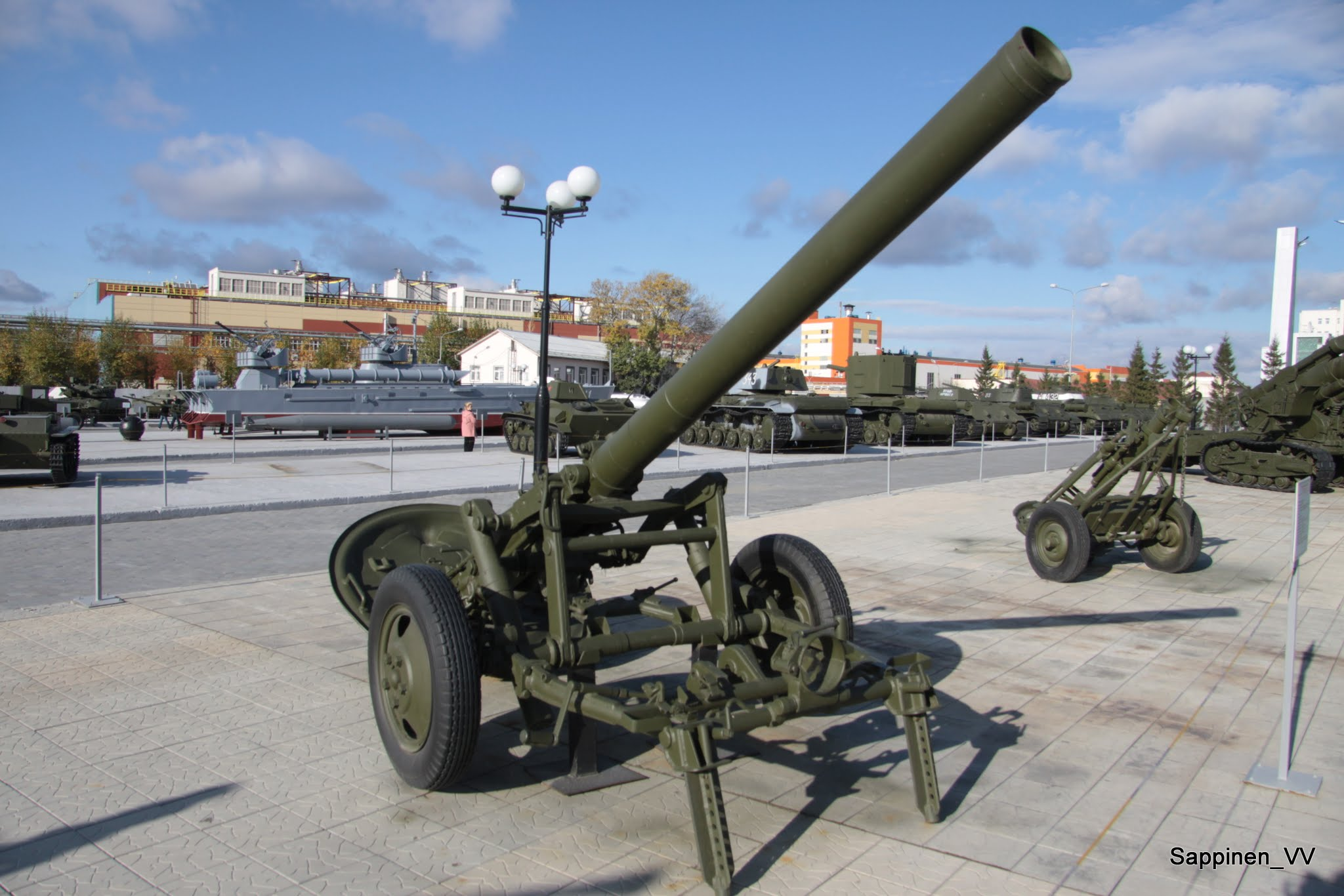 Verkhnyaya Pyshma Tank Museum 2012